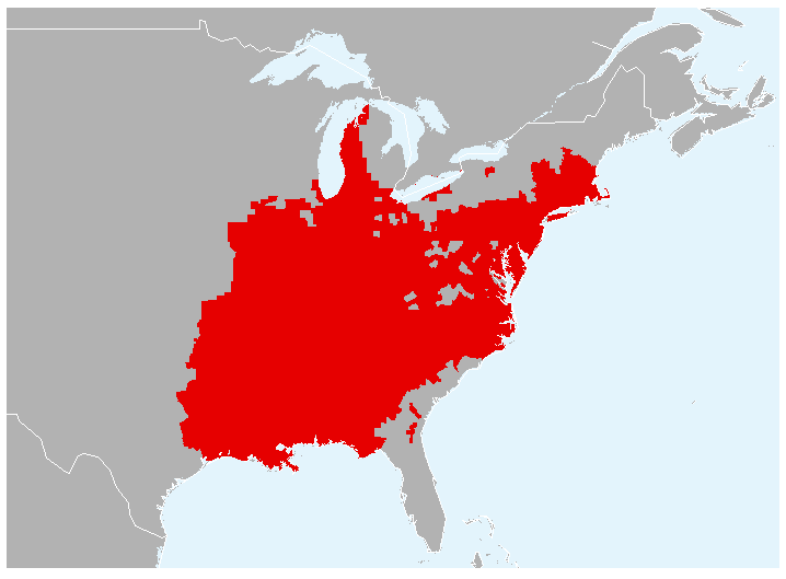 Range map for Anaxyrys fowleri